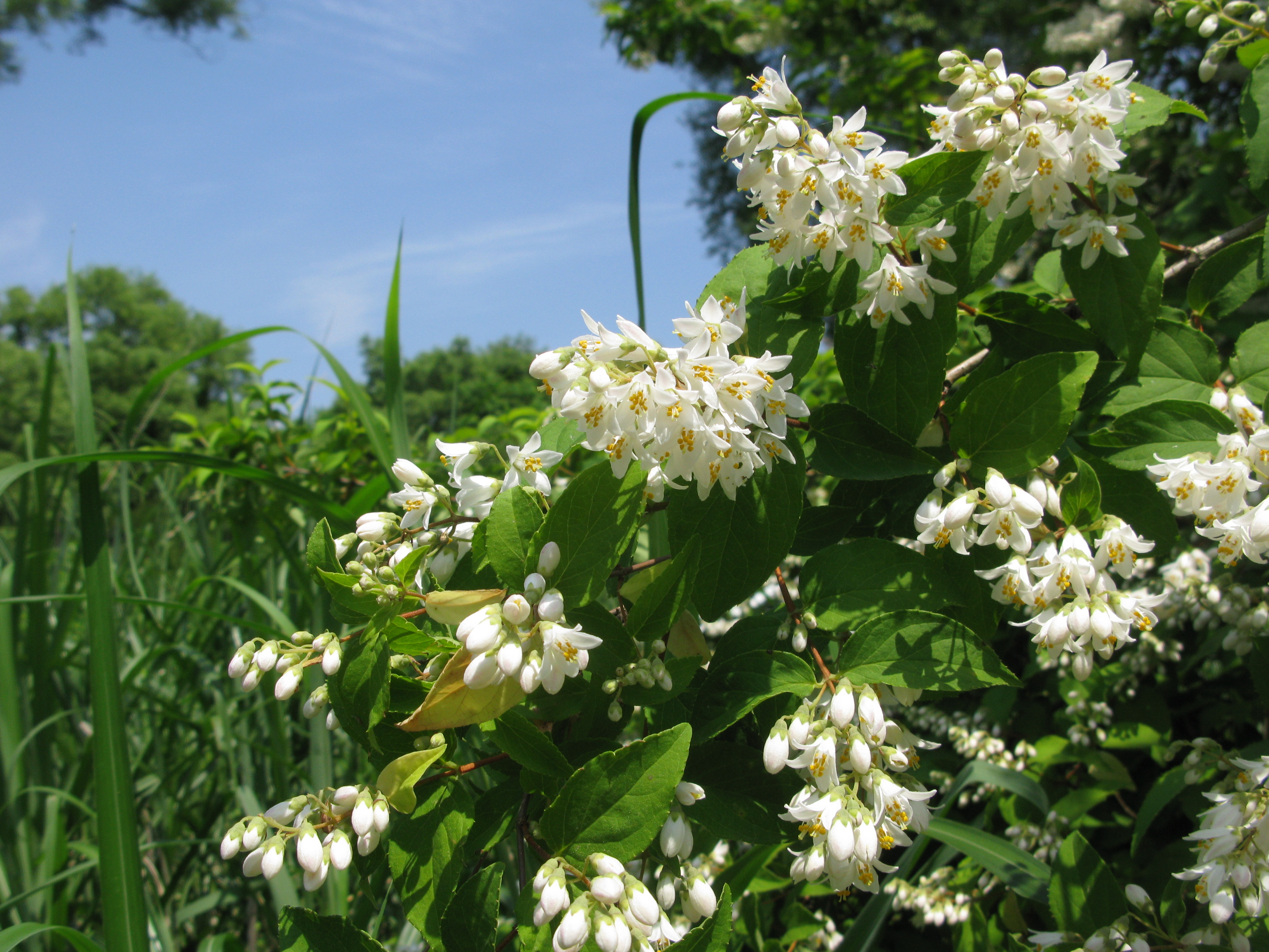 Deutzia crenata, Aizu area, Fukushima pref., Japan